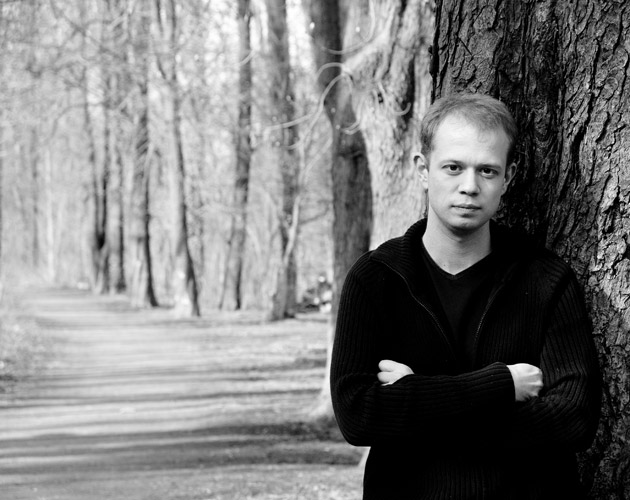 Portrait of German writer Sebastian Brock. Permission granted by the author. Licensed under CC by-sa 3.0.